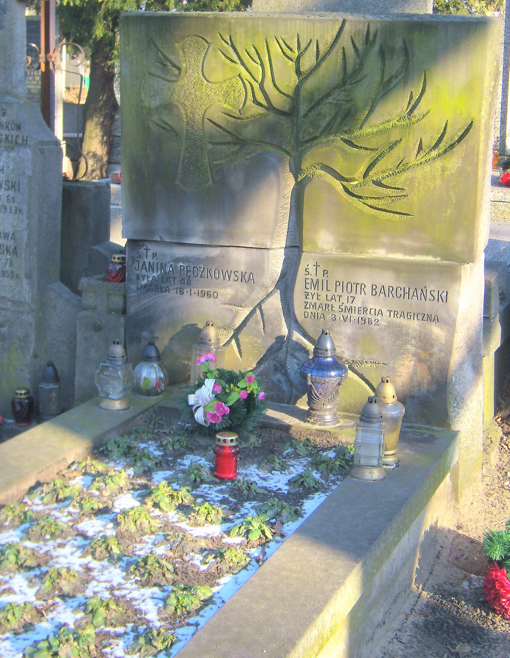 Emila Barchański tomb in Bródno Cemetery in Warsaw